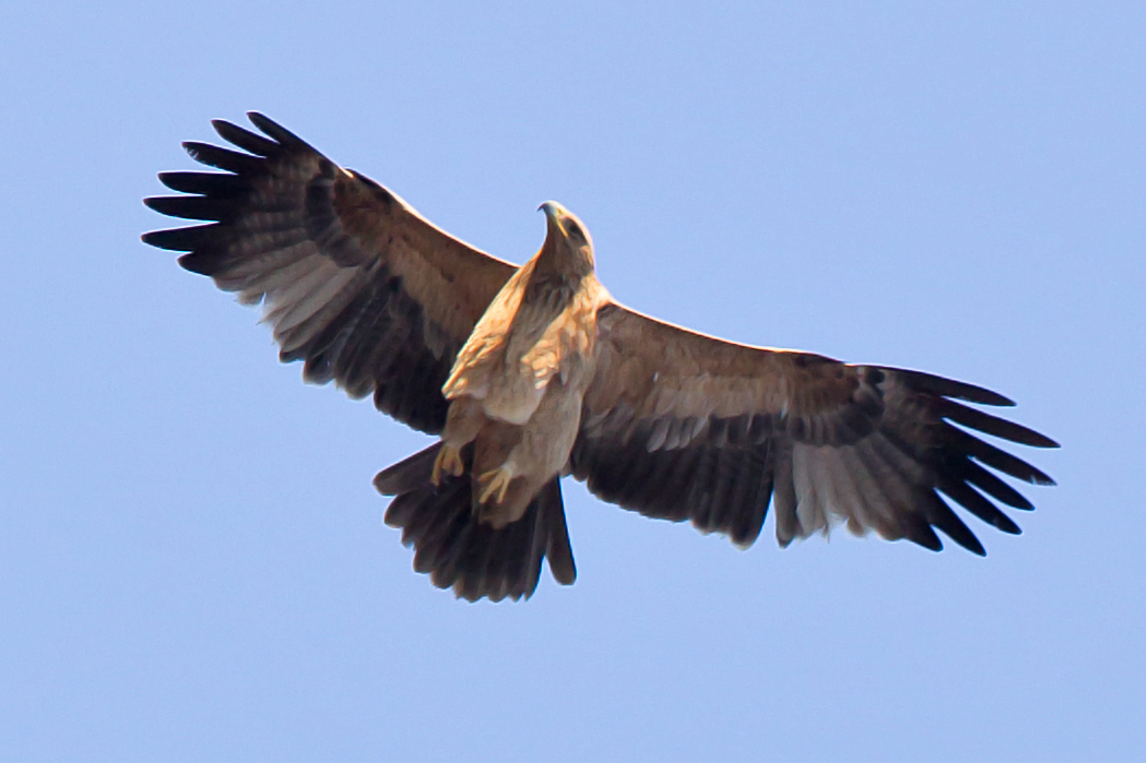 Spanish Imperial Eagle